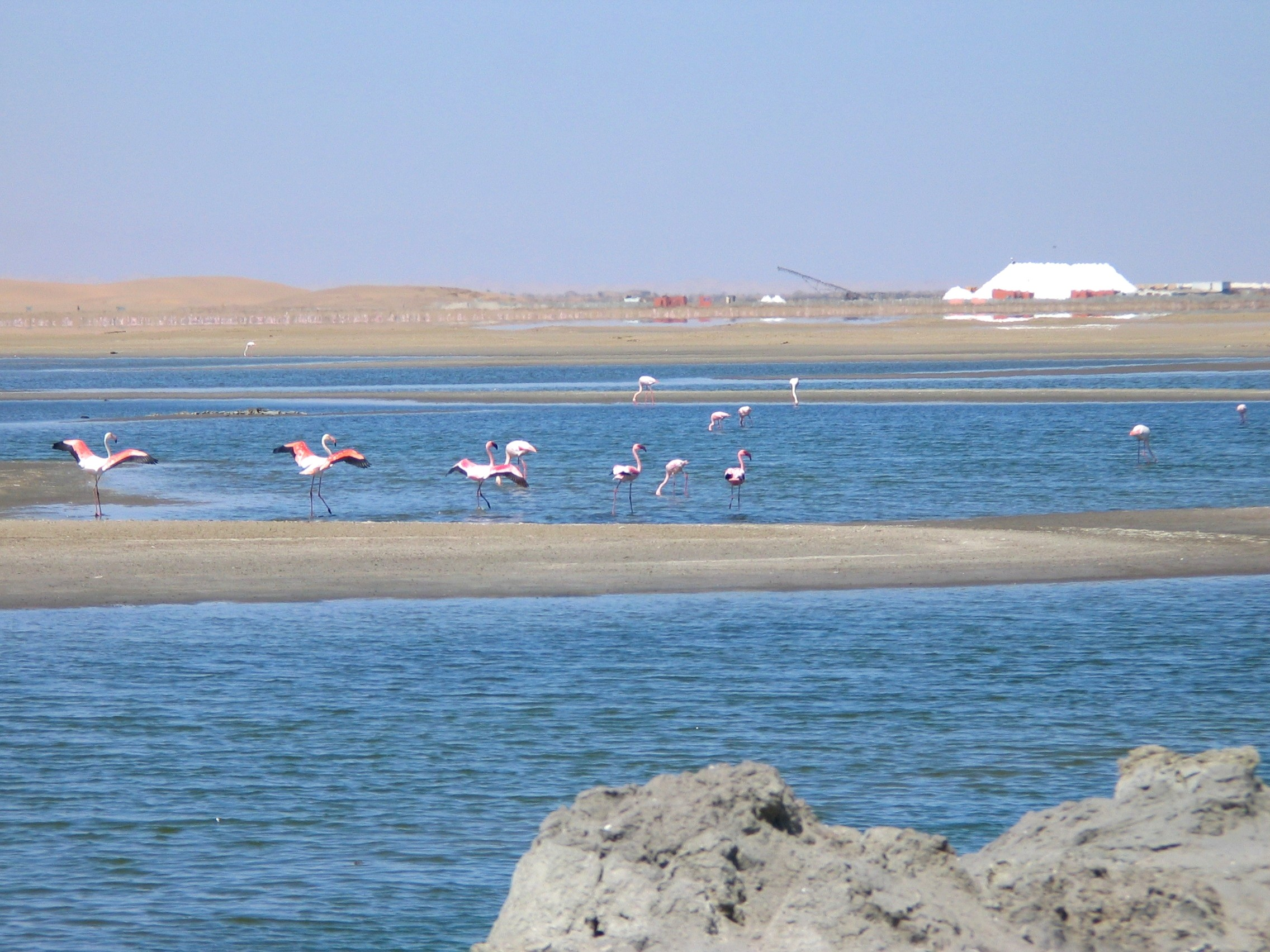 Flamingos, Saline, Walvisbay, Namibia